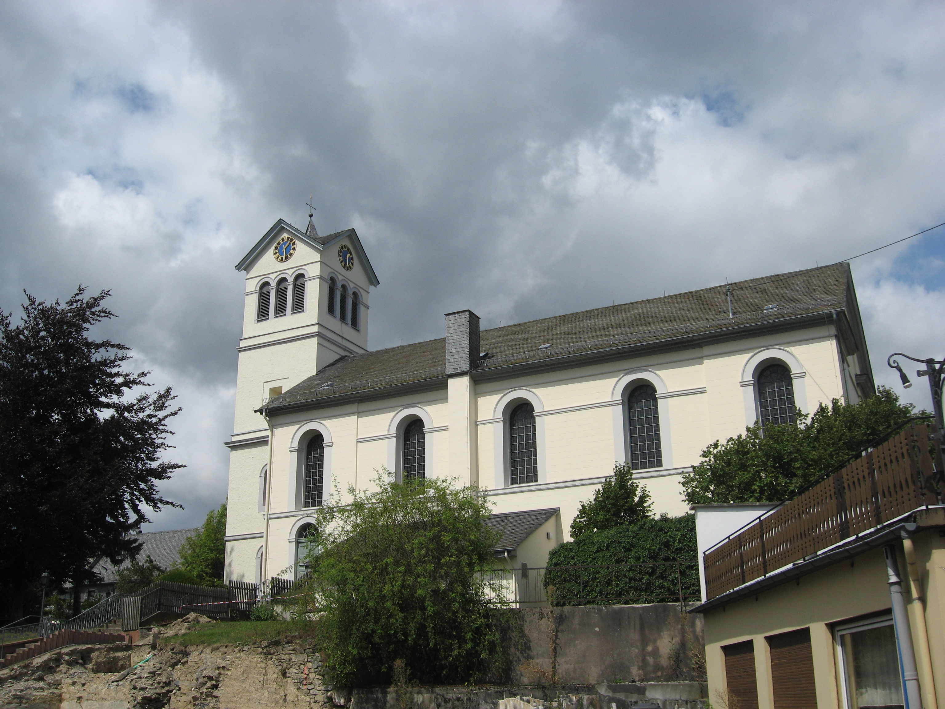 Church in the village Büchenbeuren in the Hunsrück landscape, Germany.